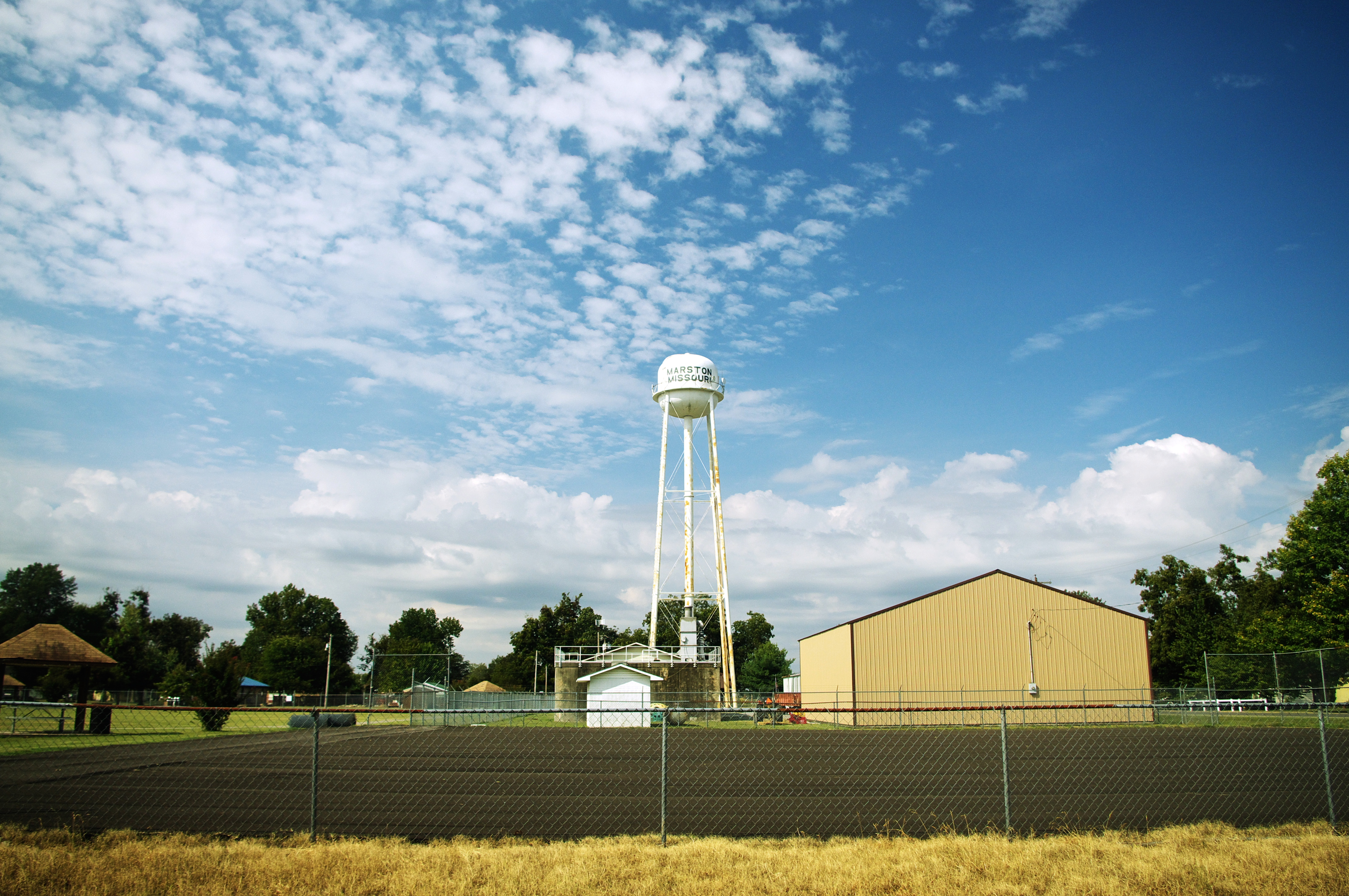 Water tower in Marston, Missouri, United States, overlooking the intersection of Elm Street and Mitchell Street.